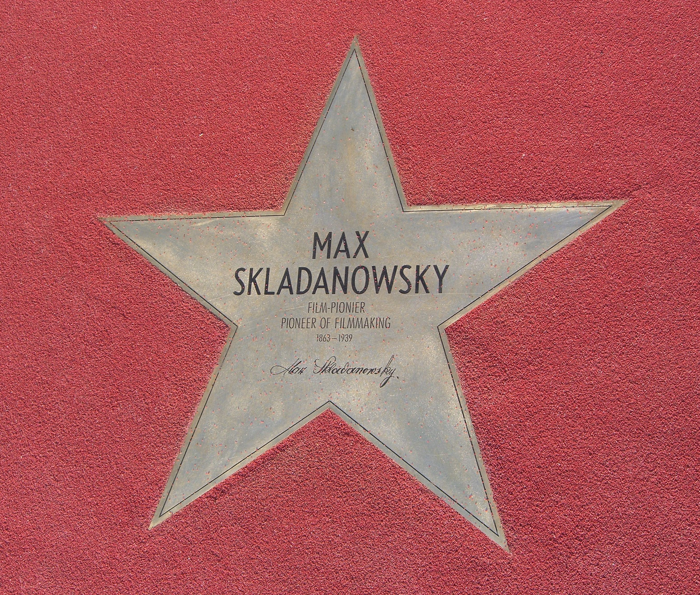 Star of Max Skladanowsky at "Boulevard der Stars" in Berlin.